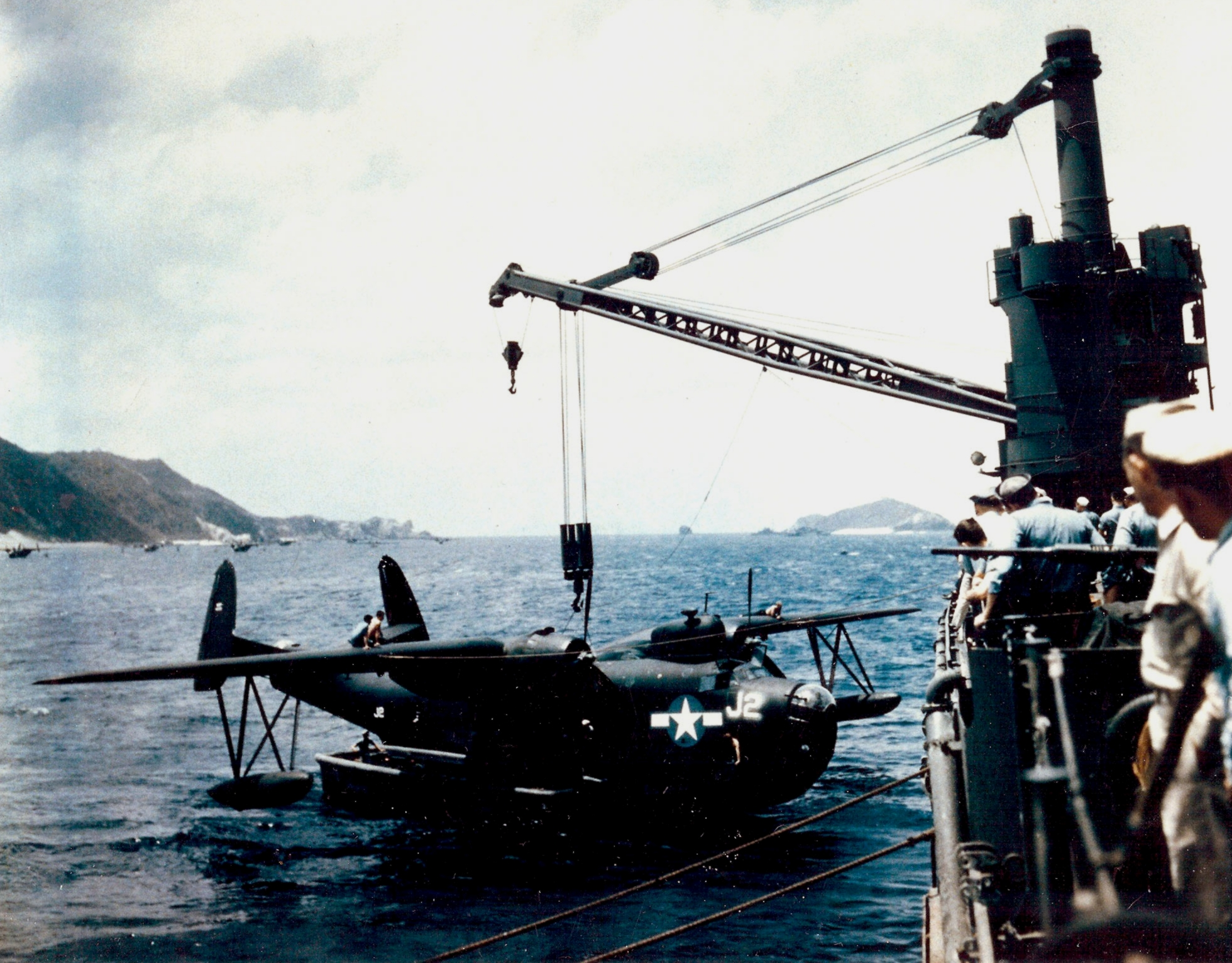 A U.S. Navy Martin PBM-5 from Patrol Bombing Squadron VPB-26 being hoisted aboard the seplane tender USS Norton Sound (AV-11) at Kerama Retto Island, Okinawa, between April and July 1945.